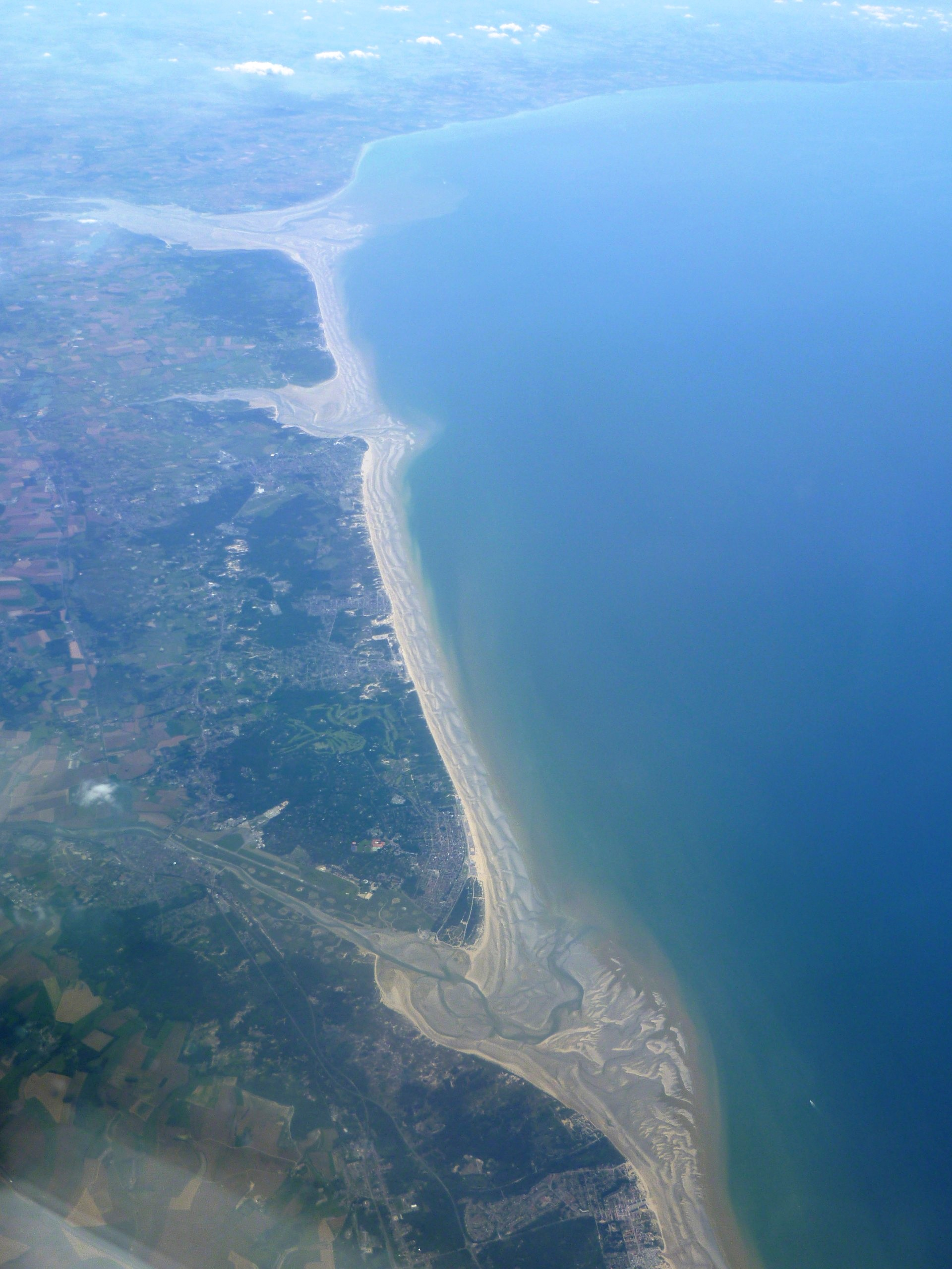 Three French rivers feeding the English Channel. Top to bottom: the Somme, the Authie and the Canche.